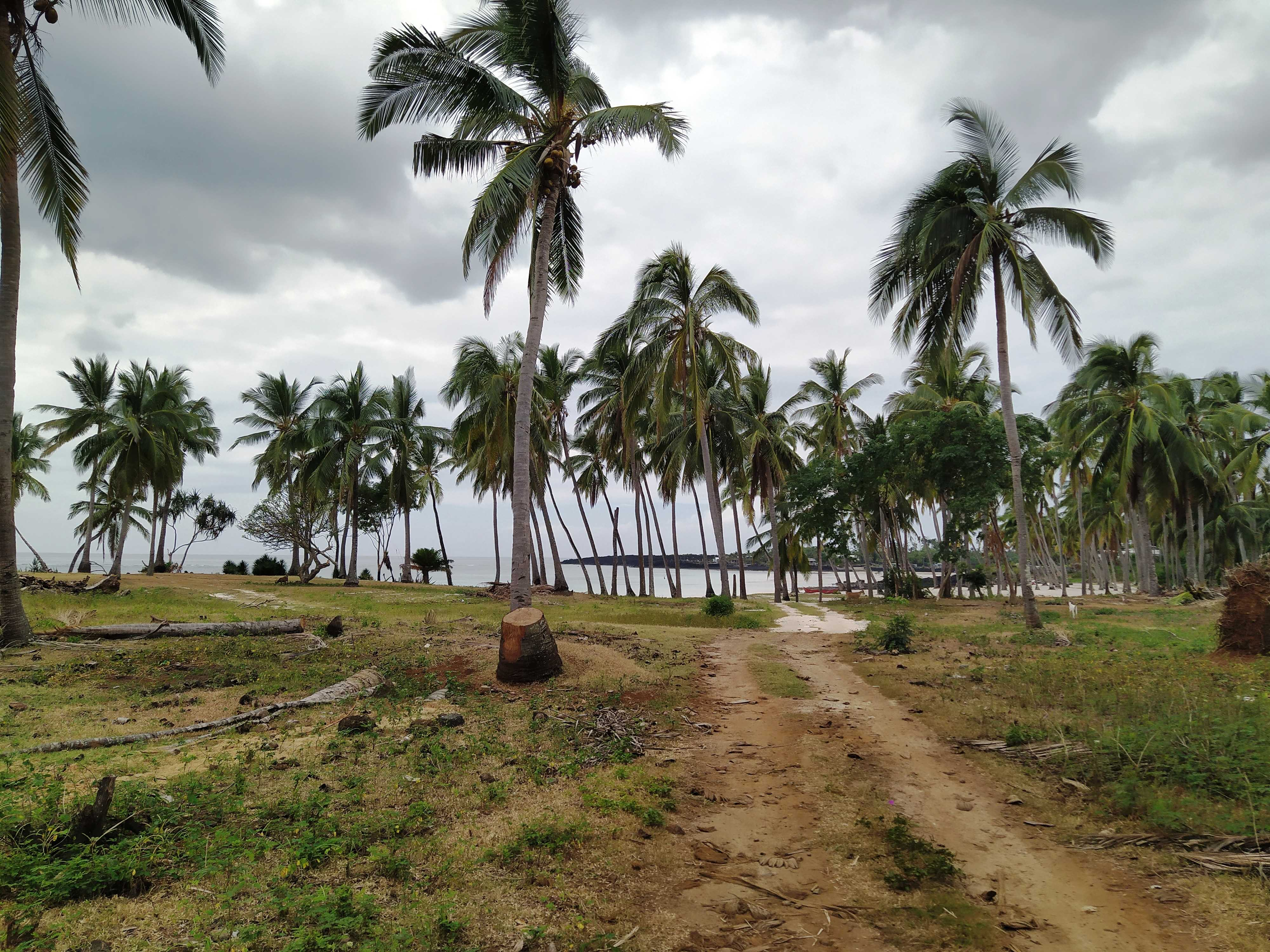 Palm trees grove near Mitsamiouli beach, Grande Comore, Comoros